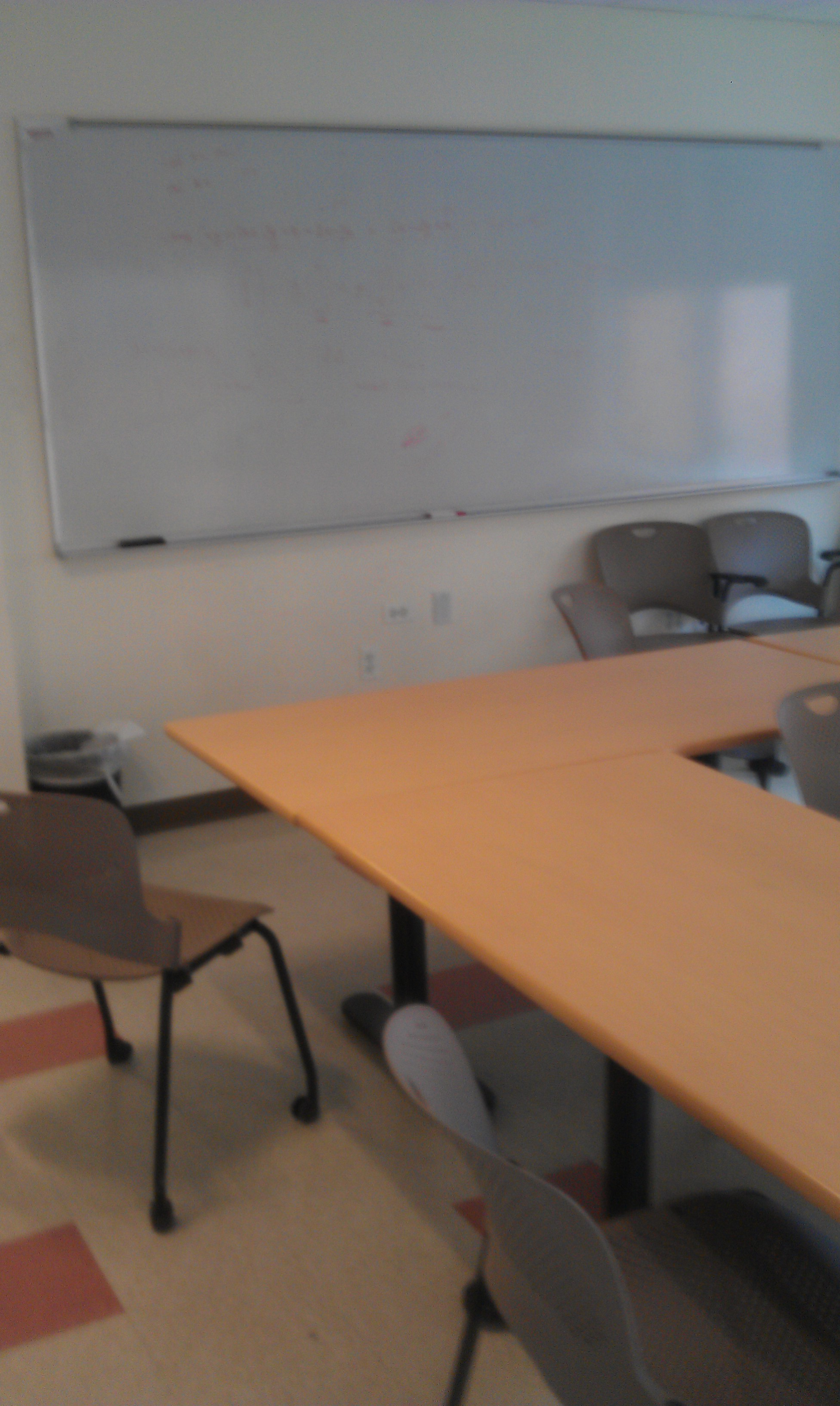 This is a typical classroom/meeting floor. This one is specifically located on the 4th floor. The classroom includes a Smartboard, which is not shown in the photo.